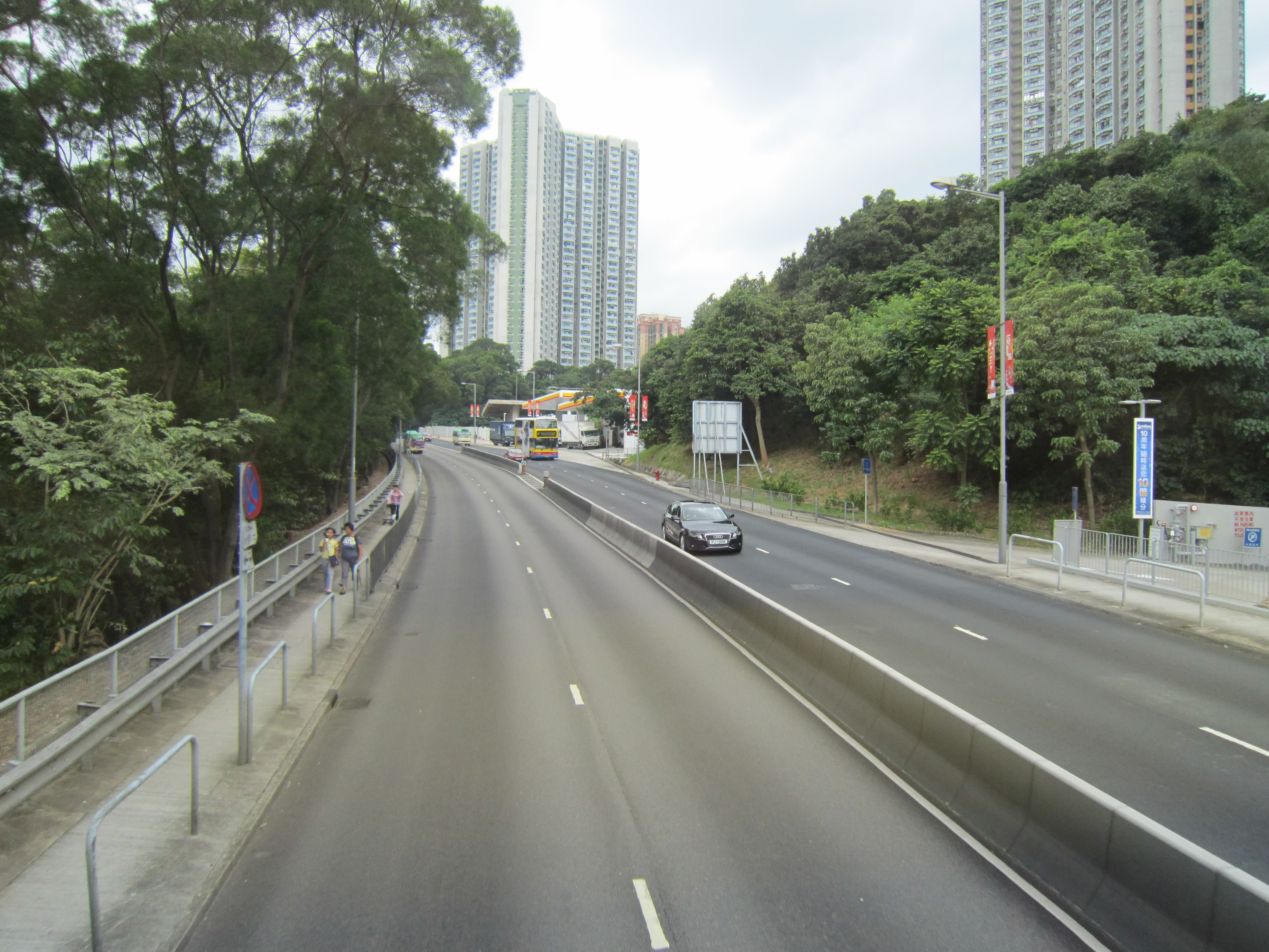 Tsing Yi Road Cheung Hang section